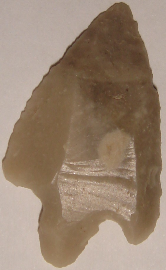 An arrowhead from the younger stone age, found in Brittany.